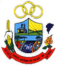 Coat of arms of the city of Santo Antônio do Palma, Rio Grande do Sul, Brazil.